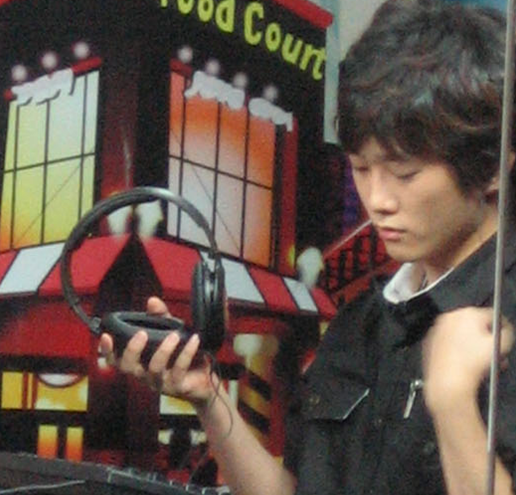 Seo Ji Hoon in the Pringles MSL